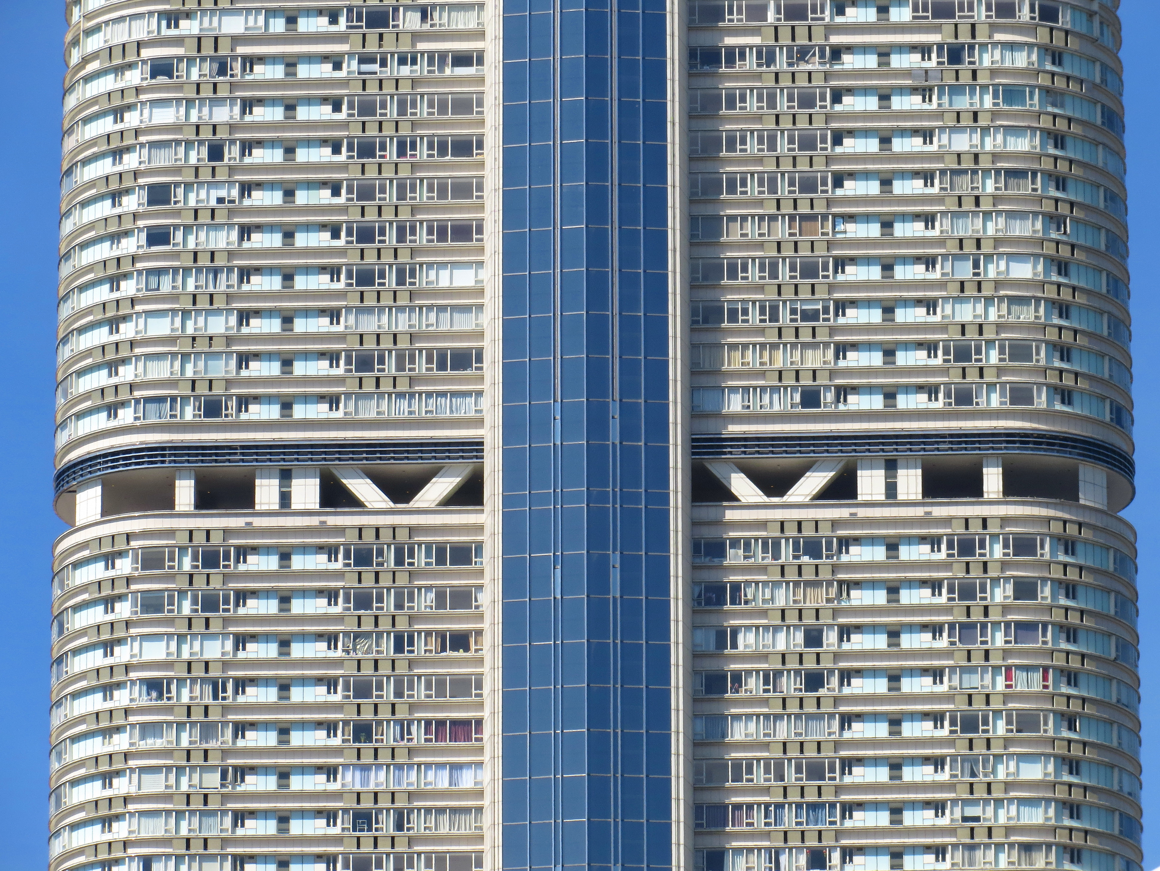 The Masterpiece, Kowloon, Hong Kong. The refuge floor on the 47th floor.